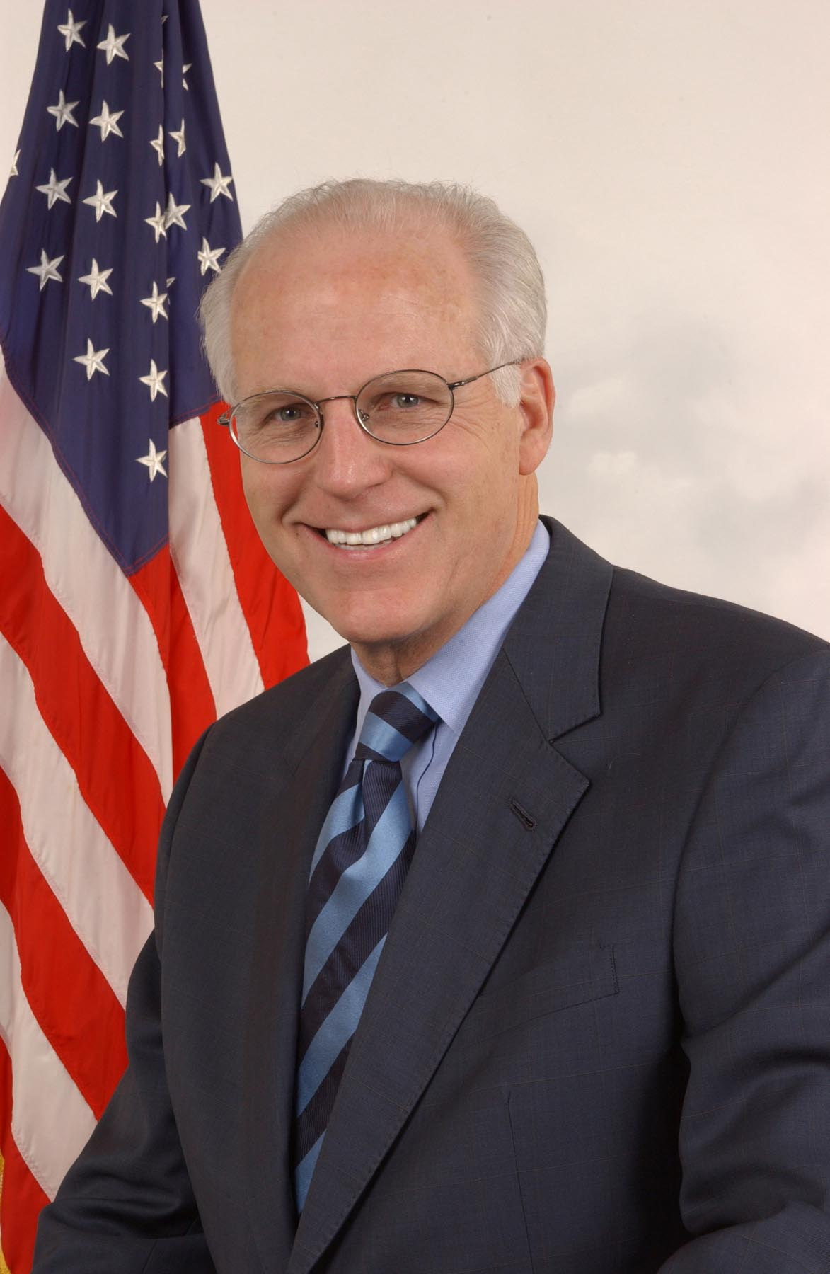 Chris Shays, member of the United States House of Representatives.